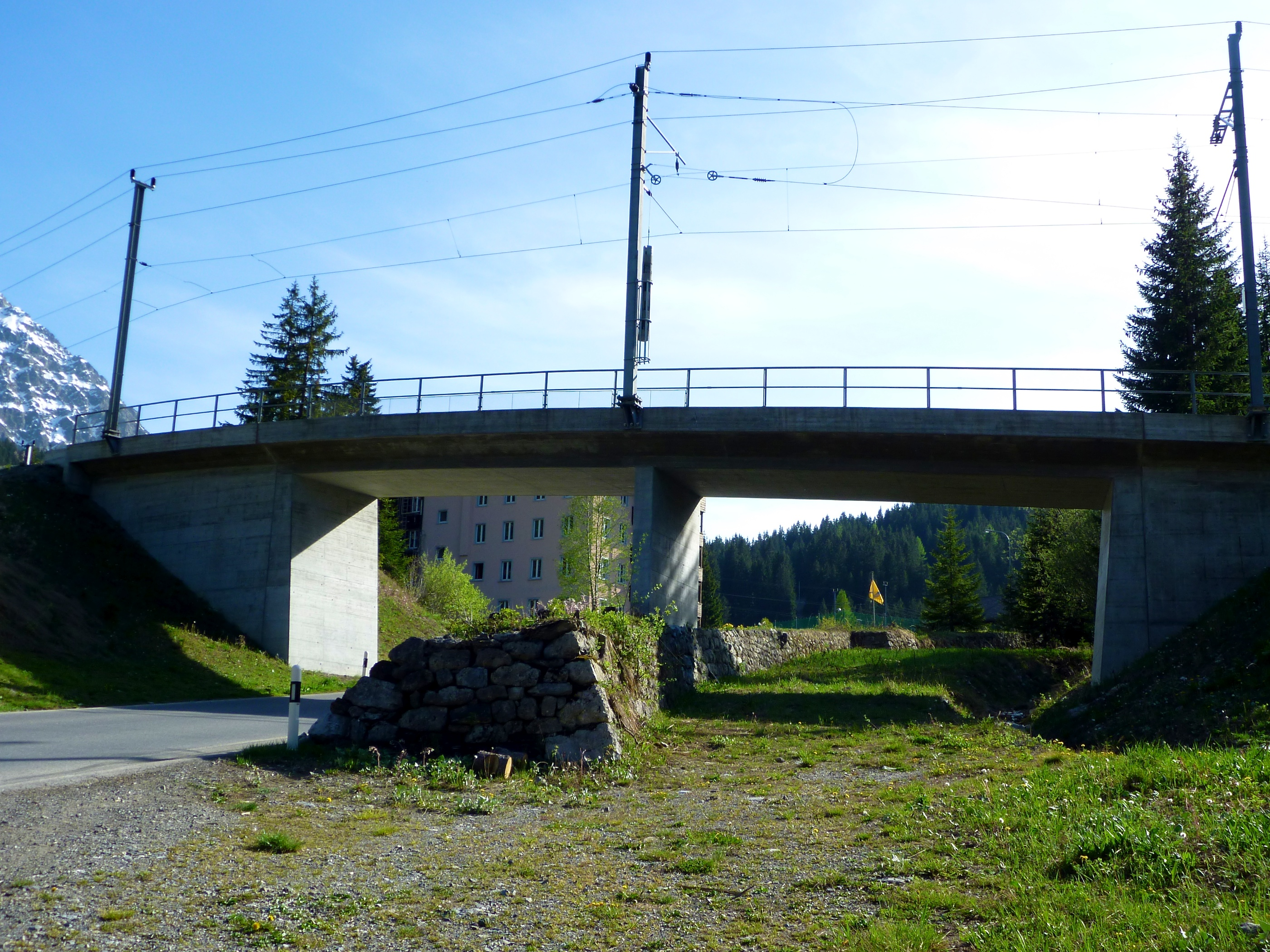 flood protection wall against Seebach (Unterer Prätschsee) at Litzirüti, Switzerland